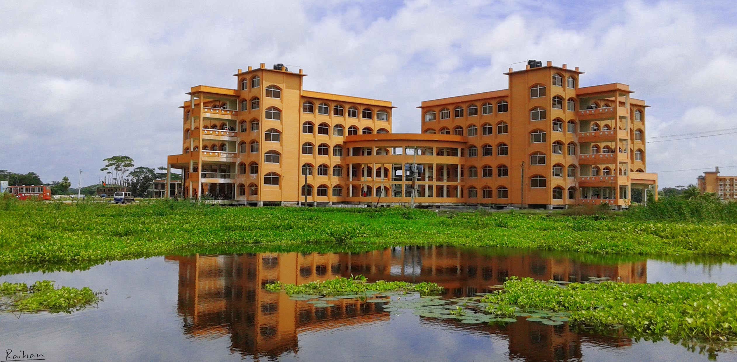 University of Barisal, one of the most beautiful campuses in the country located at Kornokathi beside Barisal-Patuakhali national highway, Barisal, Bangladesh.